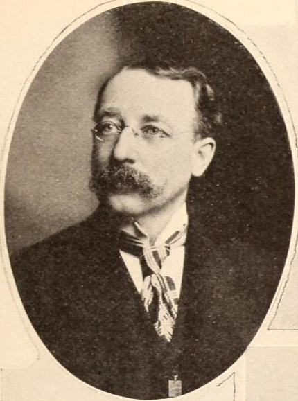 Portrait of New York assemblyman Frederick W. Griffith